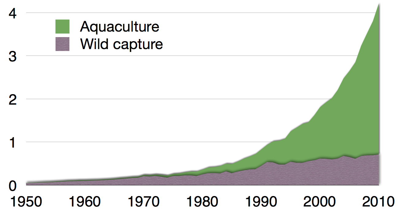 Global production (wild and farmed) of tilapia in million tonnes, 1950–2010, as reported by the FAO. Based on data sourced from the FishStat database